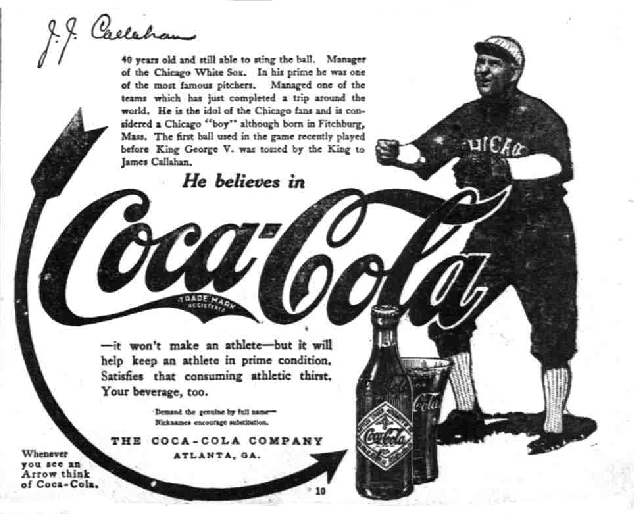 Coca-Cola ad with Nixey Callahan.